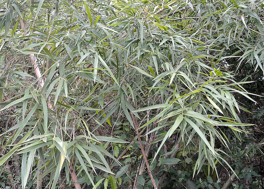 A thicket bamboo known as Yatevo or as Tacuara brava. Found in eastern Paraguay and adjacent parts of Brazil and Argentina. Photo from Iguazu Park, on the Argentina-Brazil Border.